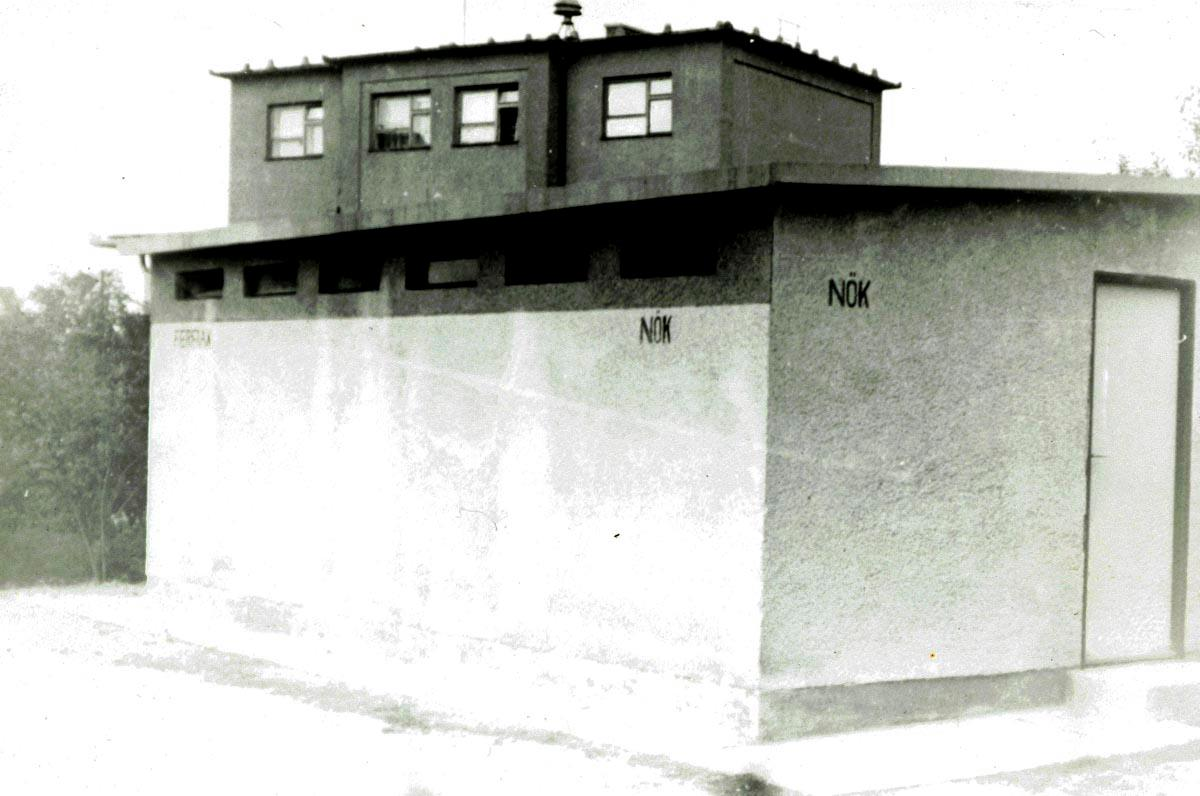 This restroom was in the North curve of stadium until 2002.